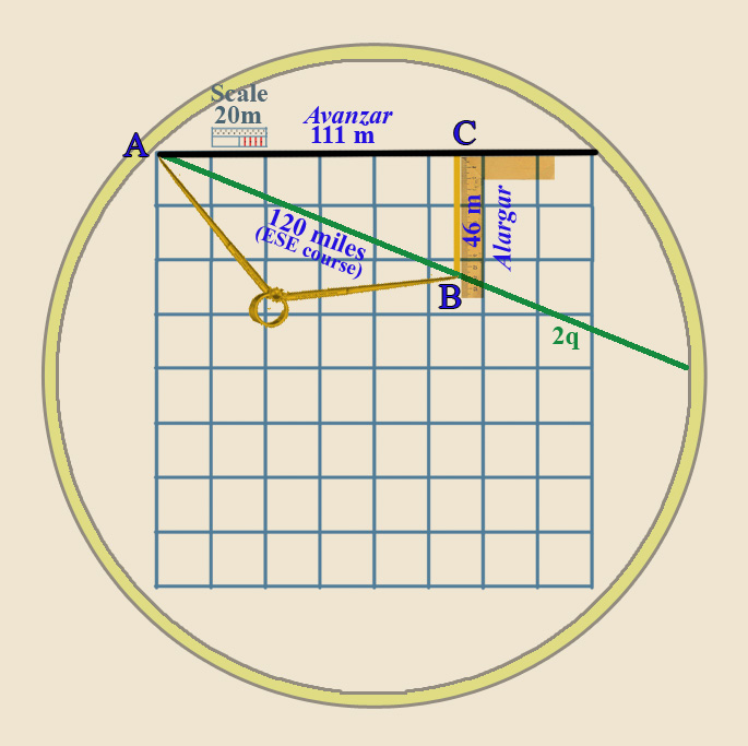 Illustration of the use of the tondo e quadro (circle and square) tool introduced in the 1436 atlas of Venetian captain Andrea Bianco. Ship intended to go on an East course, but has been instead been sailing 120 miles on an East-southeast (ESE) course - that is, two quarter-winds below the intended course. Using a pair of dividers and the map scale, navigator constructs a right-angled triangle ABC, by which he can calculate the alargar (current distance from intended course) and avanzar (how much of the intended course he has already made good).